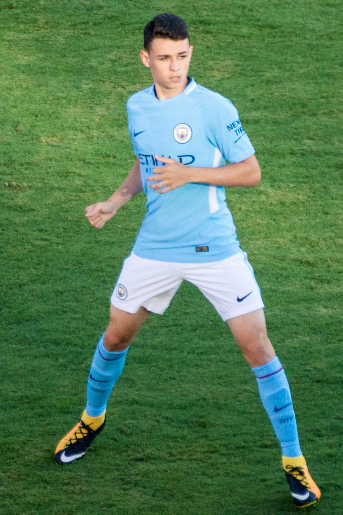 Manchester City vs Tottenham Hotspur at Nissan Stadium in Nashville, TN